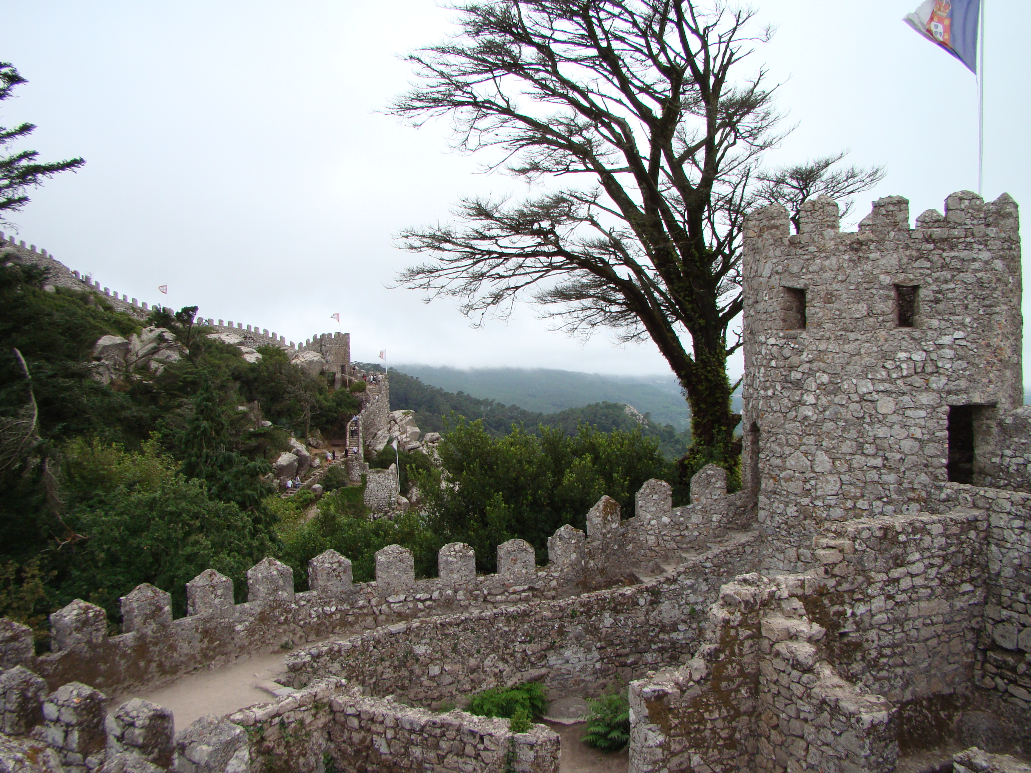 Castle of the Moors - Sintra